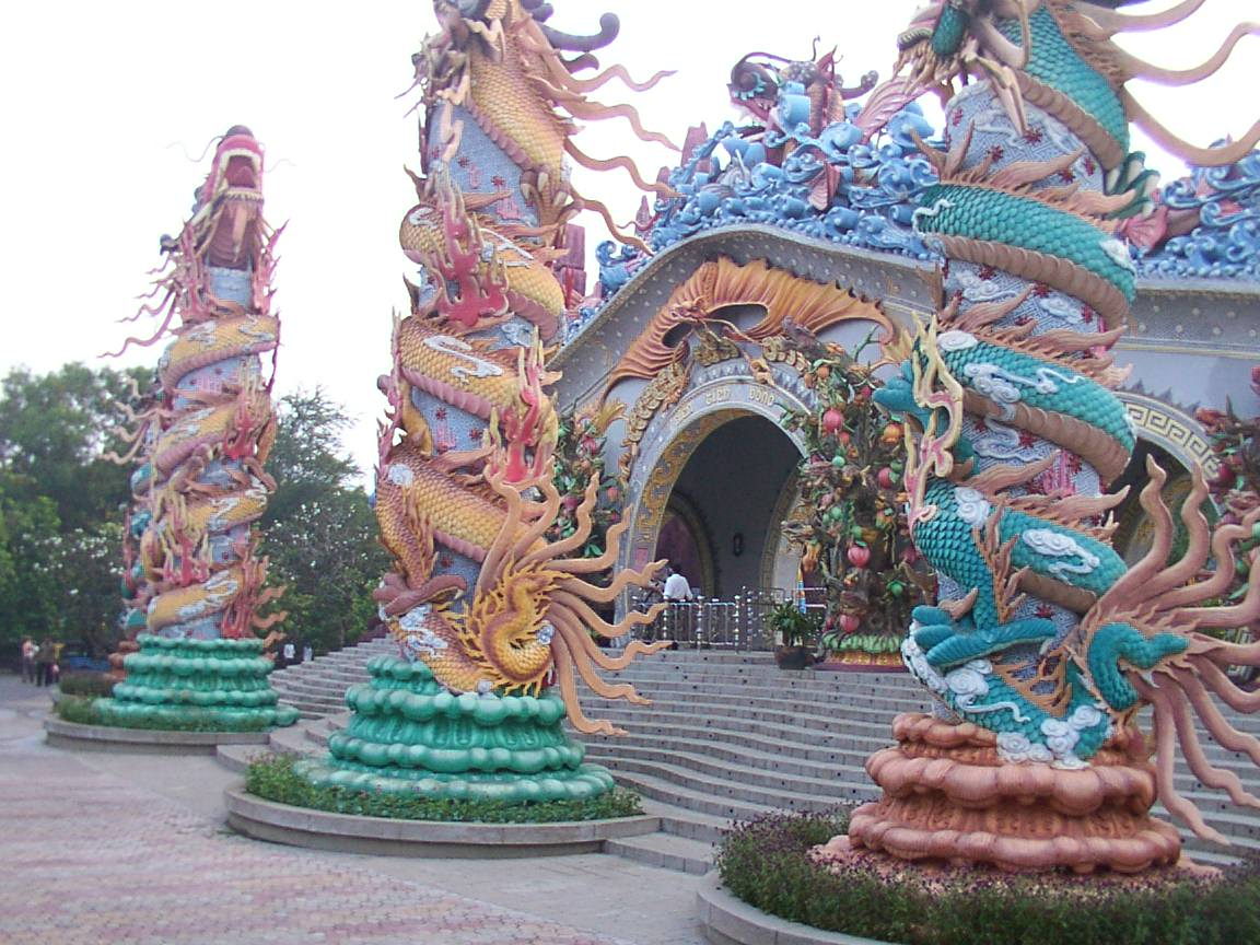 The entrance of the Suoi Tien Park in Saigon, Vietnam